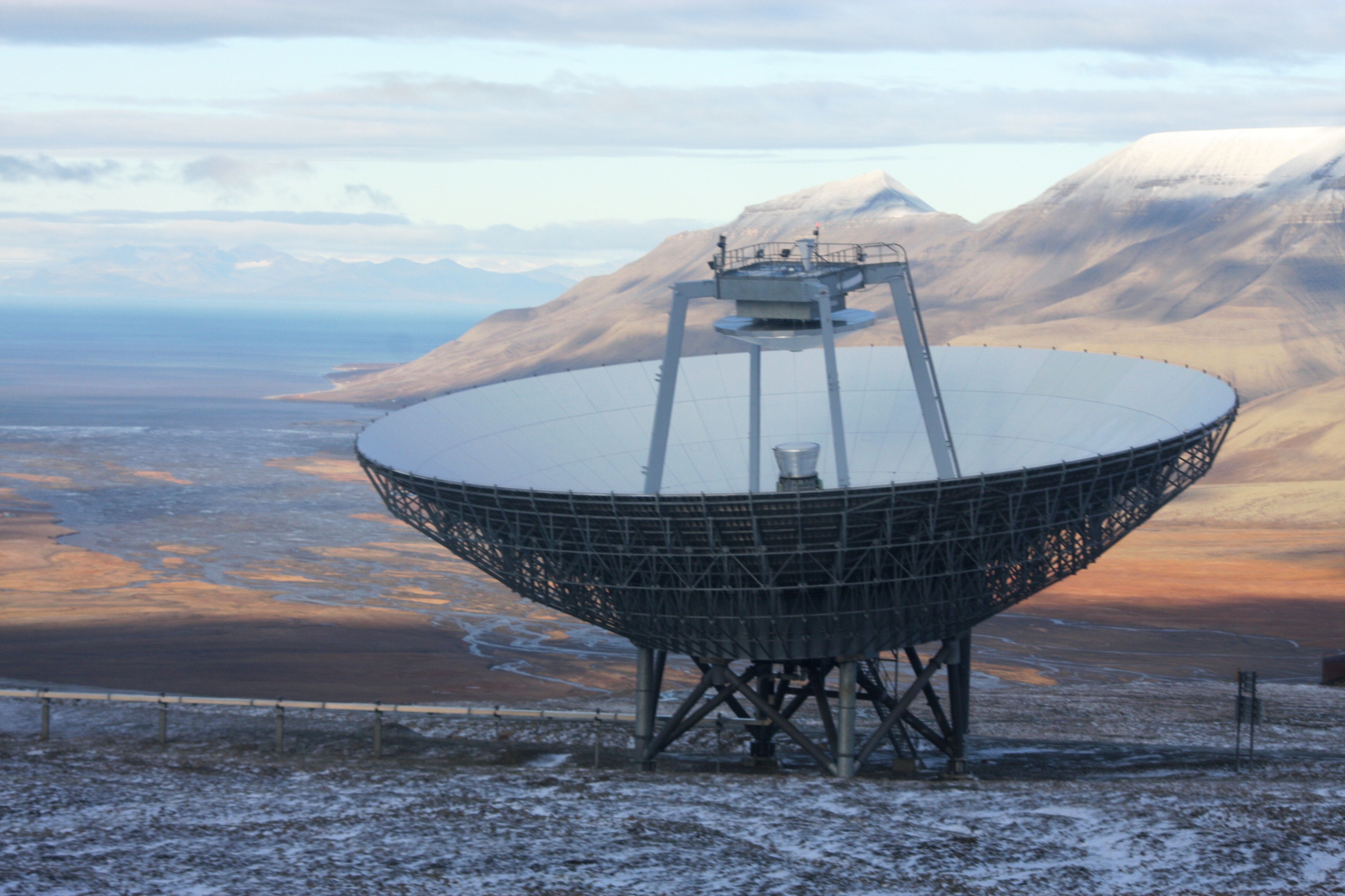 EISCAT antenna over Adventdalen valley, Spitsbergen